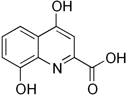 chemical structure of xanthurenic acid